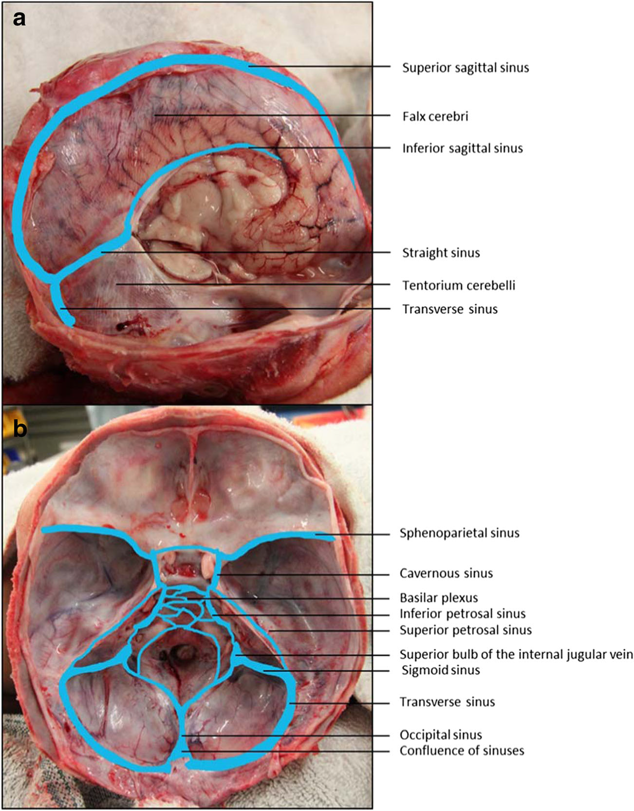 The dural venous sinuses. a View of the falx cerebri and tentorium cerebelli after right hemisperectomy. b Cranial base after removal of the brain.